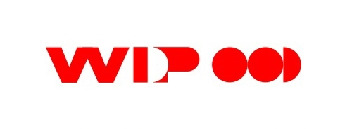 WIP Entertainment